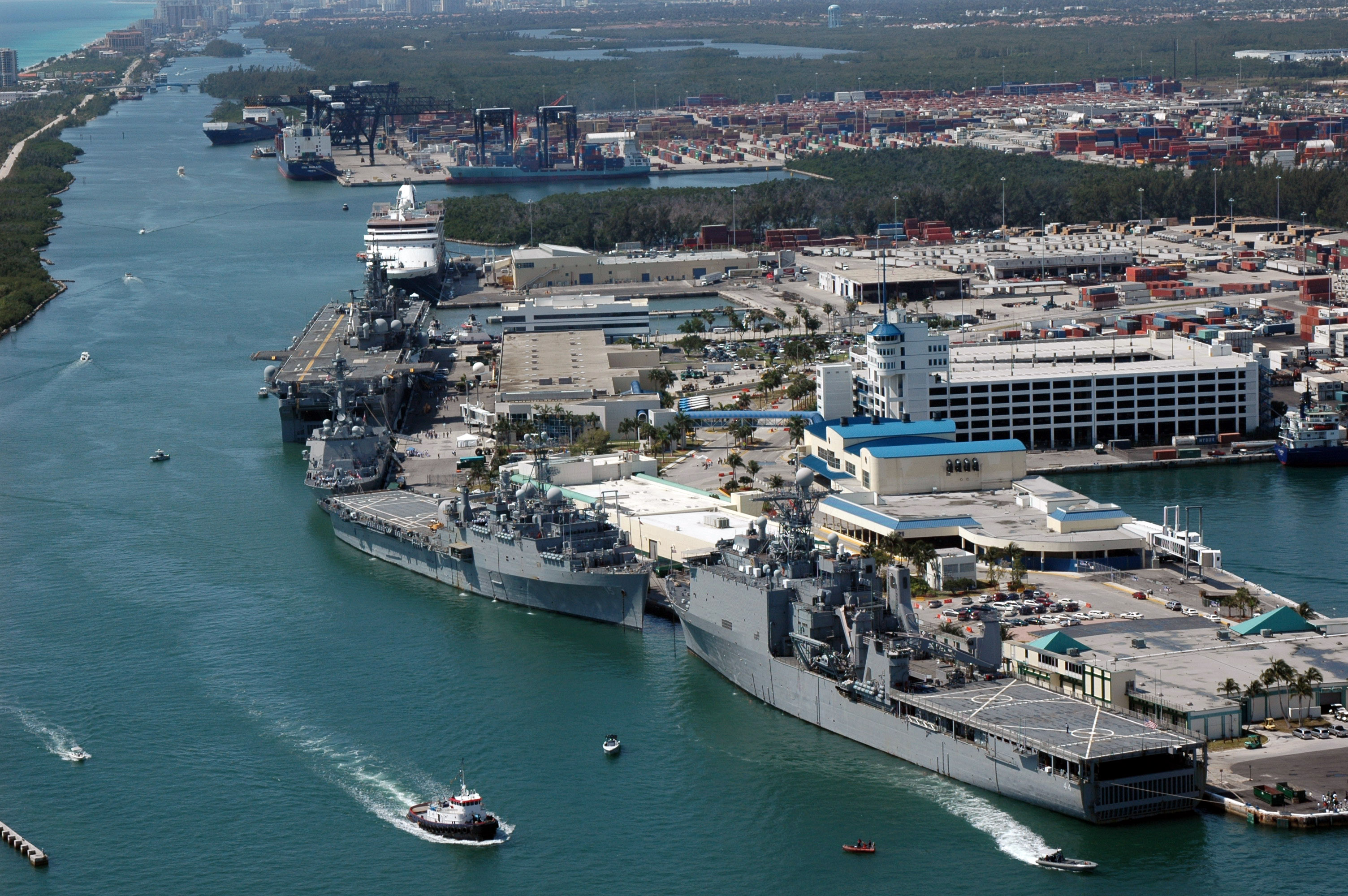 PORT EVERGLADES, Fla. (May 3, 2007) - Dock landing ship USS Gunston Hall (LSD 44), amphibious transport dock USS Ponce (LPD 15), guided missile destroyer USS Forest Sherman (DDG 98) and amphibious assault ship USS Kearsarge (LHD 3) are in port for Fleet Week 2007 in Fort Lauderdale, Fla. U.S. Navy photo by Mass Communication Specialist 3rd Class Santos Huante (RELEASED)